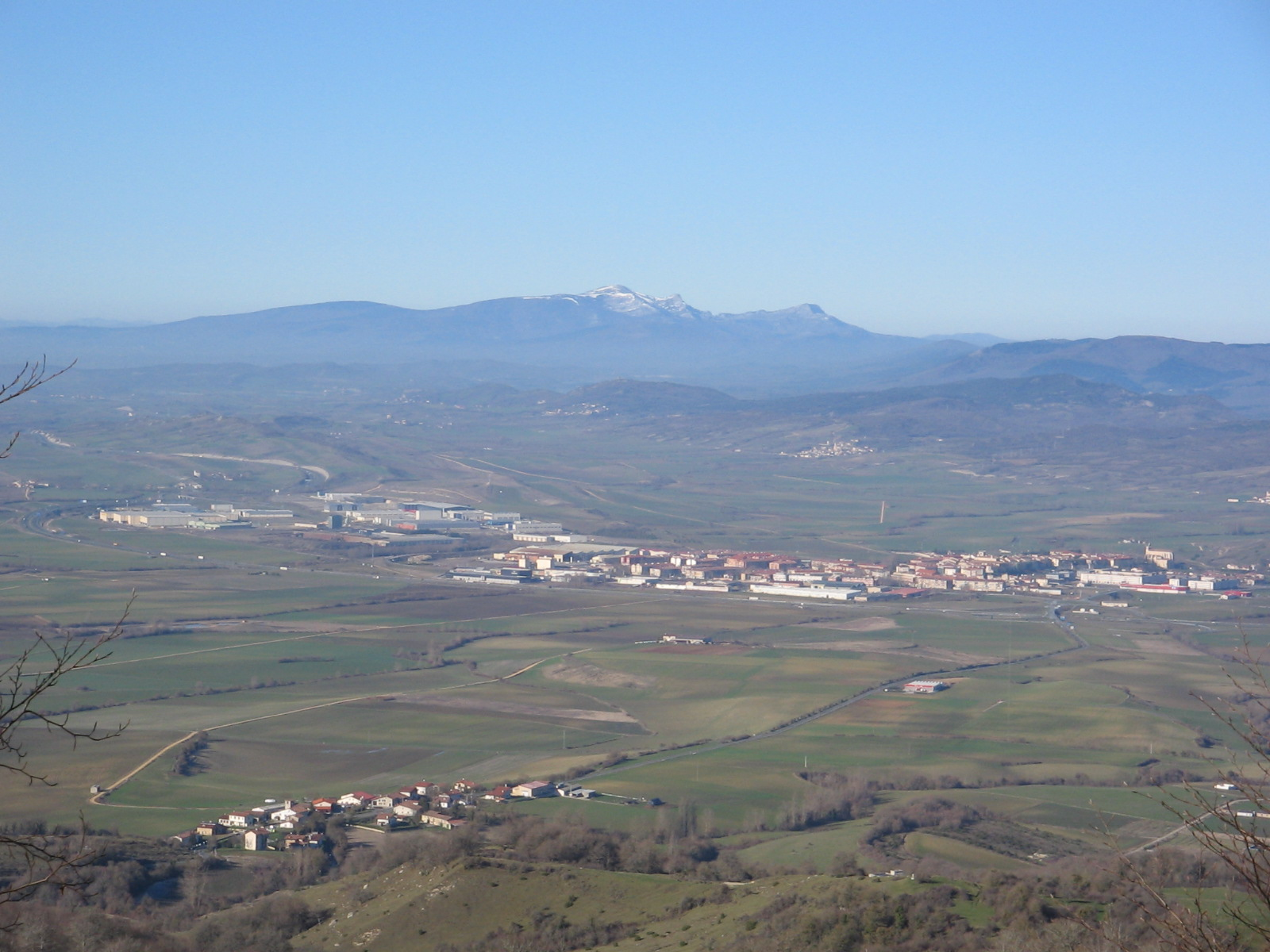 Agurain, Basque Country of Spain, in the east of the province of Álava